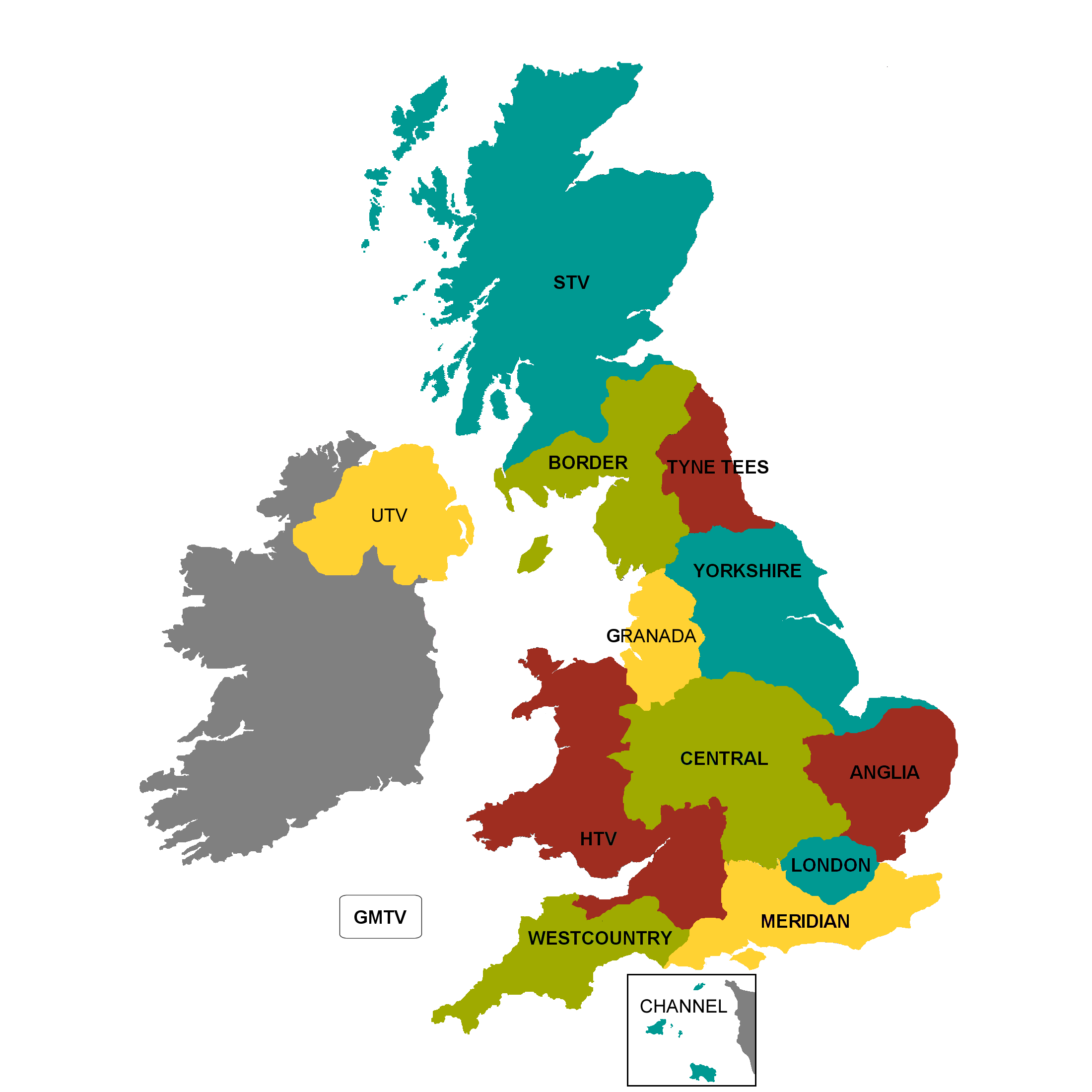 Map of the ITV regions (2006), using old names.